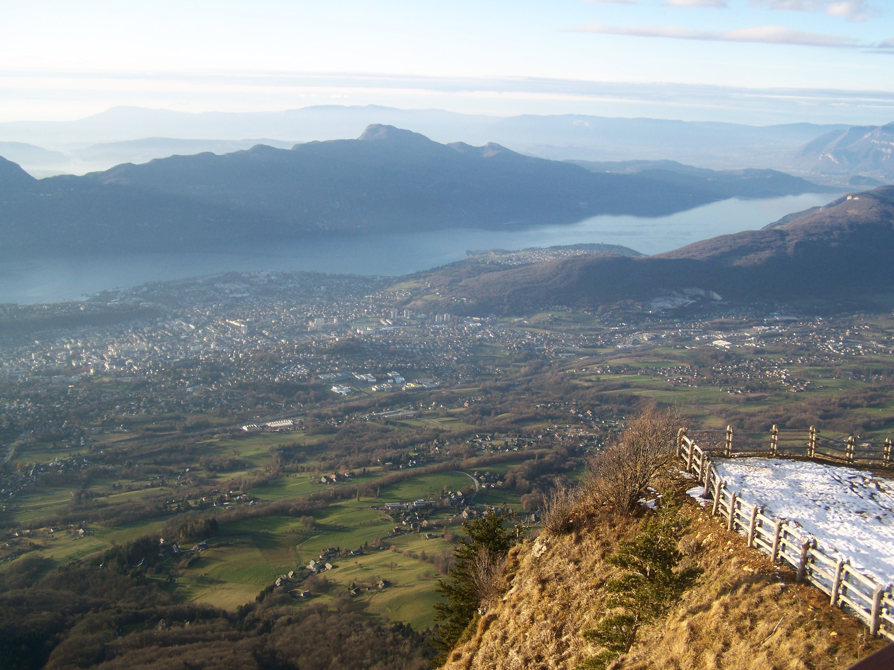 Landscape on city of Aix-les-Bains and the lac du Bourget lake, seen from the Mont Revard in Savoie, France.